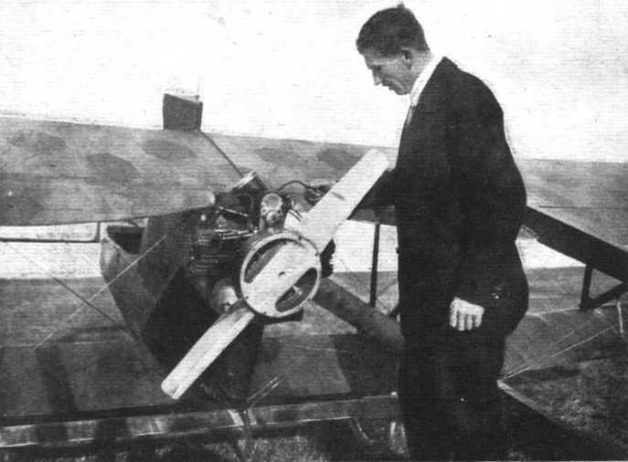 Budig motorglider engine installation. 1923